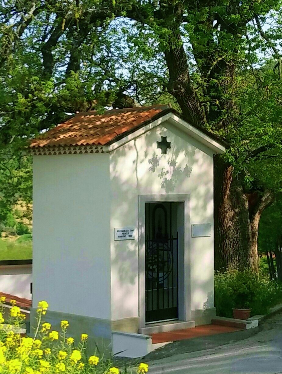 An oak with a wayside shrine at Valleluogo in Ariano Irpino countryside, Italy